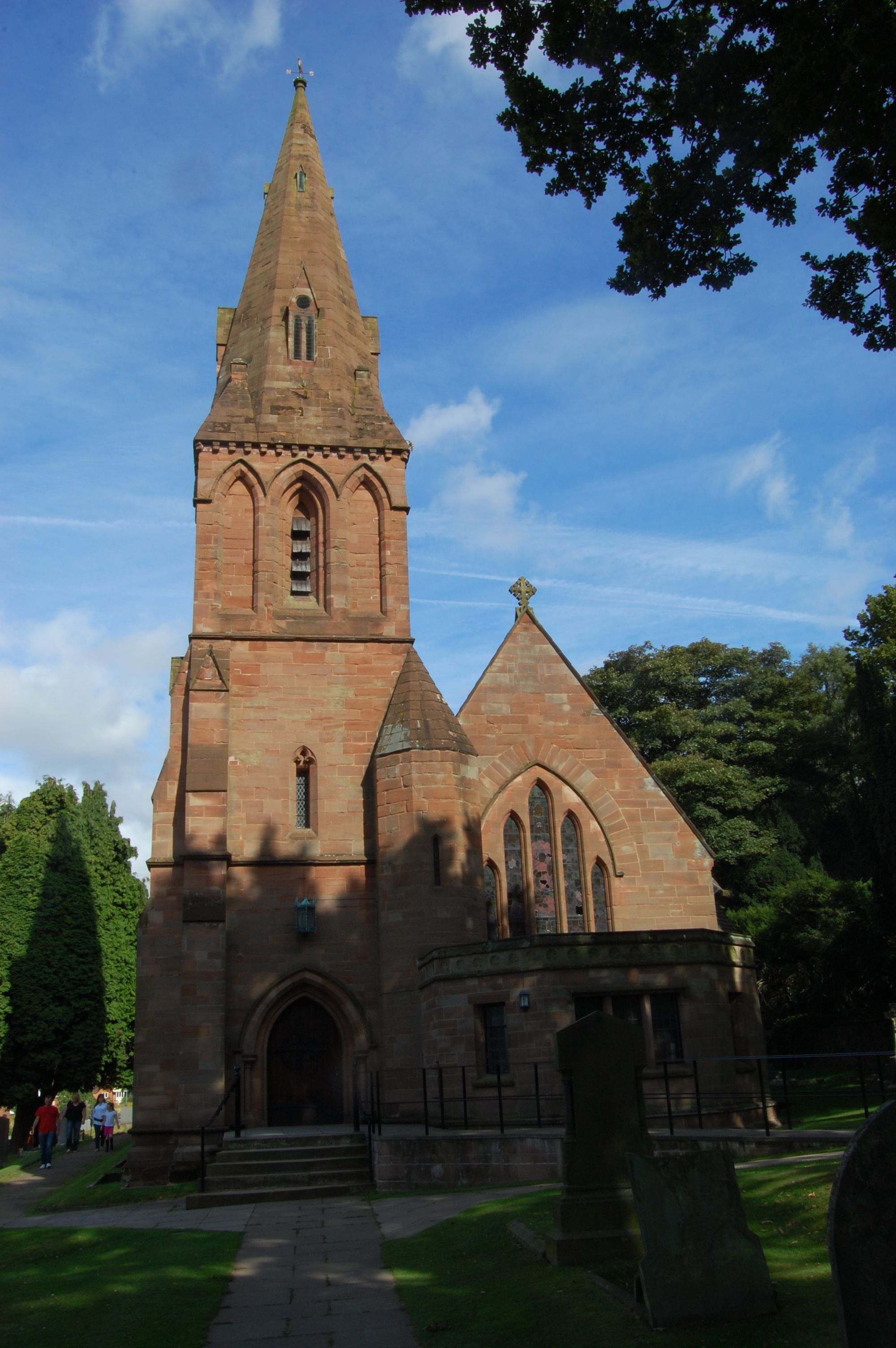 West front of St Peter's parish church, Little Aston, Staffordshire, England